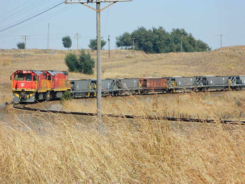 Photo: D.Gallop